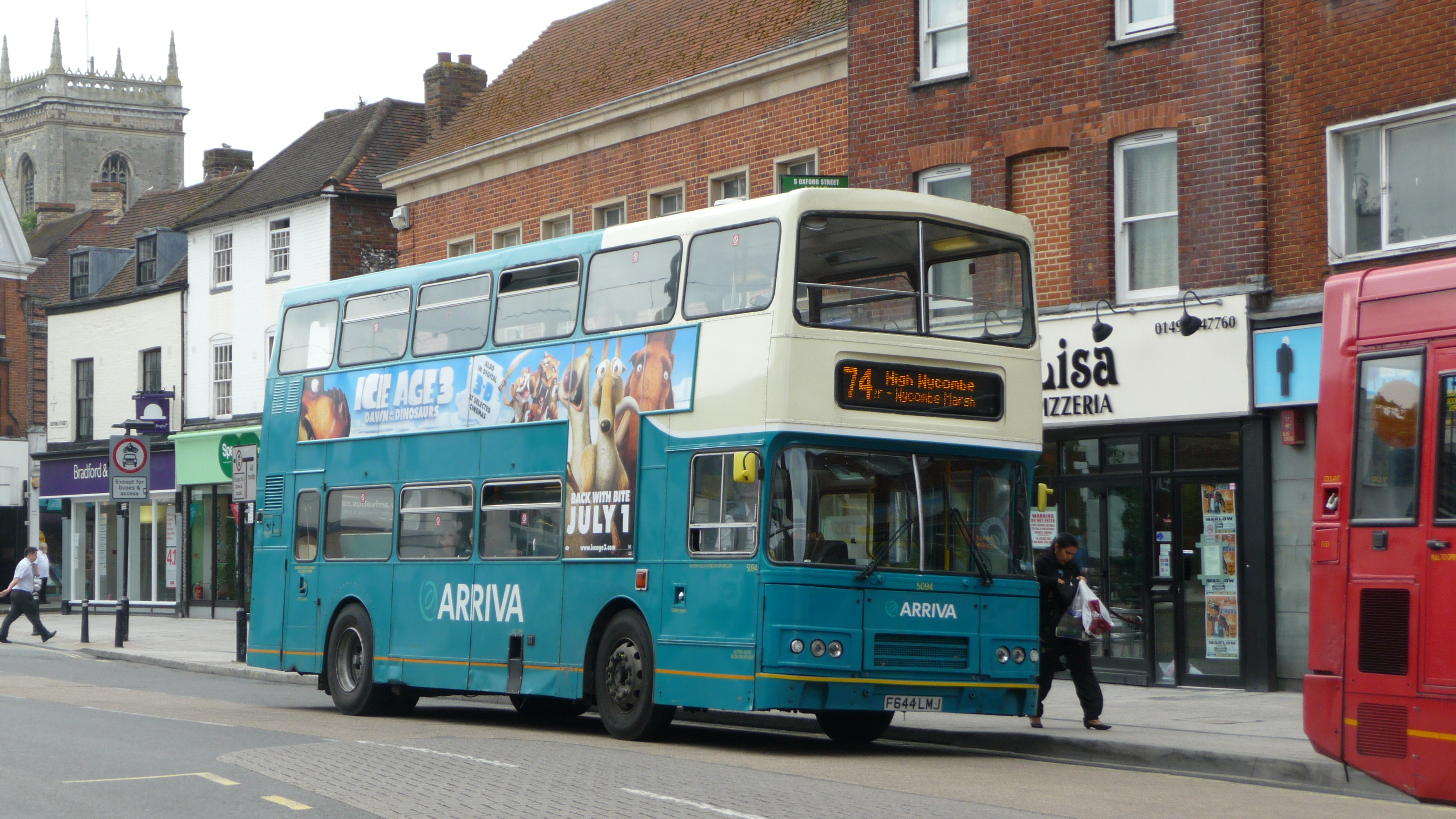 Arriva The Shires 5094 (F644 LMJ), a 1988 Leyland Olympian double-decker with Alexander RL bodywork, pictured in Oxford Street, High Wycombe, Buckinghamshire, operating route 74, on which First Berkshire operates competing services. It was new to Luton & District as their fleet no. 644, operating in the Luton area, latterly in Luton & Dunstable blue and yellow livery. With the name change to Arriva The Shires in December 1998 it was renumbered 5094, but it didn't get repainted into Arriva corporate livery until June 2001 when it was refurbished at Derby. It was transferred to High Wycombe in October 2005, returning to Luton in August 2009. Some time after 2007 it has had its front and rear lights replaced with these tiny LED units, a very noticeable change to the as built design.